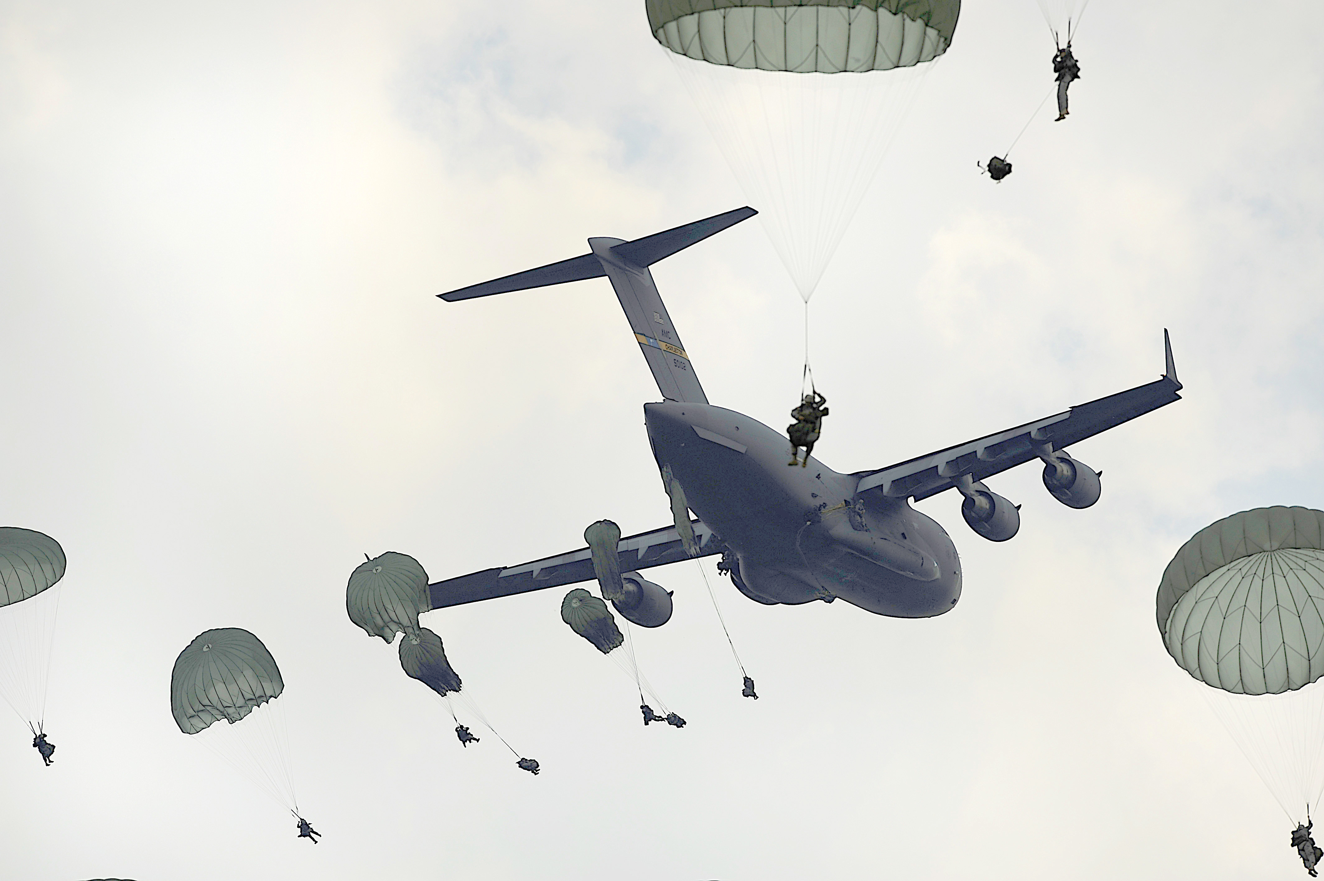 U.S. Soldiers from the 27th Engineer Battalion, 20th Engineer Brigade, XVIII Airborne Corps perform static line jumps out of a C-17 Globemaster III aircraft over Pope Air Force Base, N.C., Aug. 24, 2009. (DoD photo by Airman 1st Class Asha McMakin, U.S. Air Force/Released)